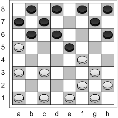 Position in opening Обратная городская партия (Obratnaya gorodskaya partiya) in russian checkers